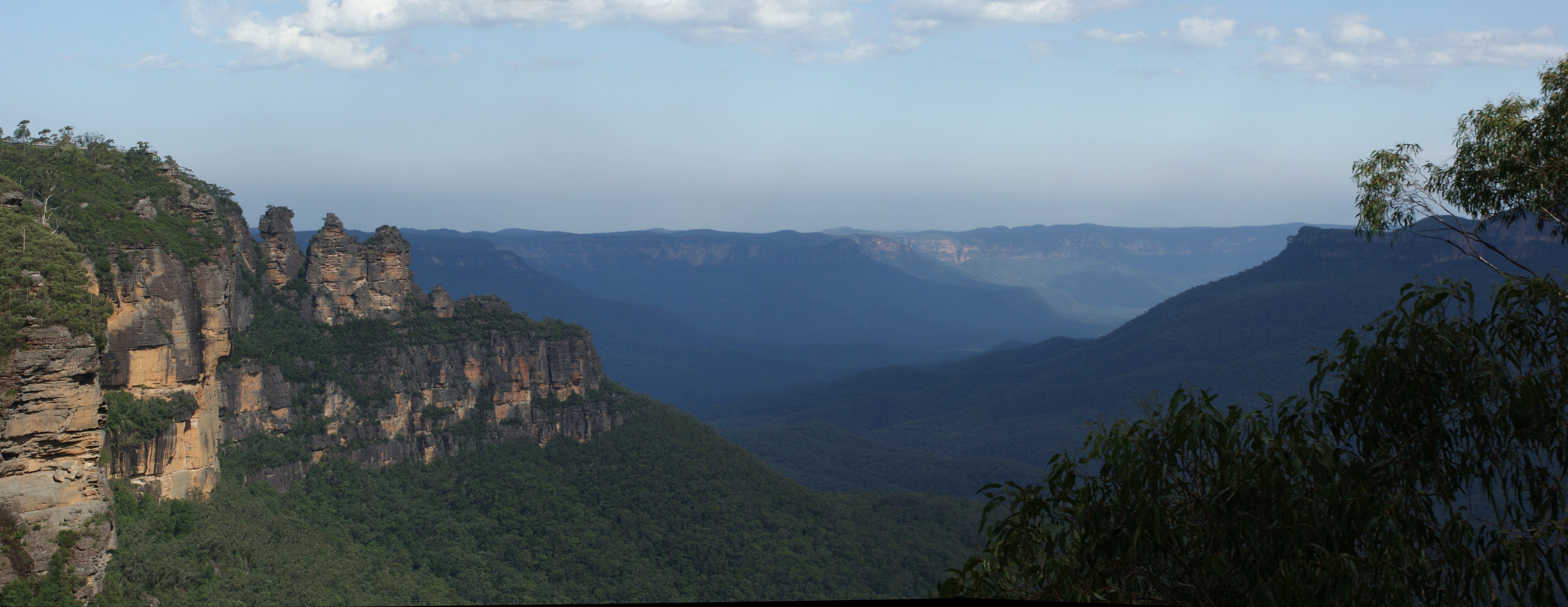 Three Sisters, Blue Mountains Australia